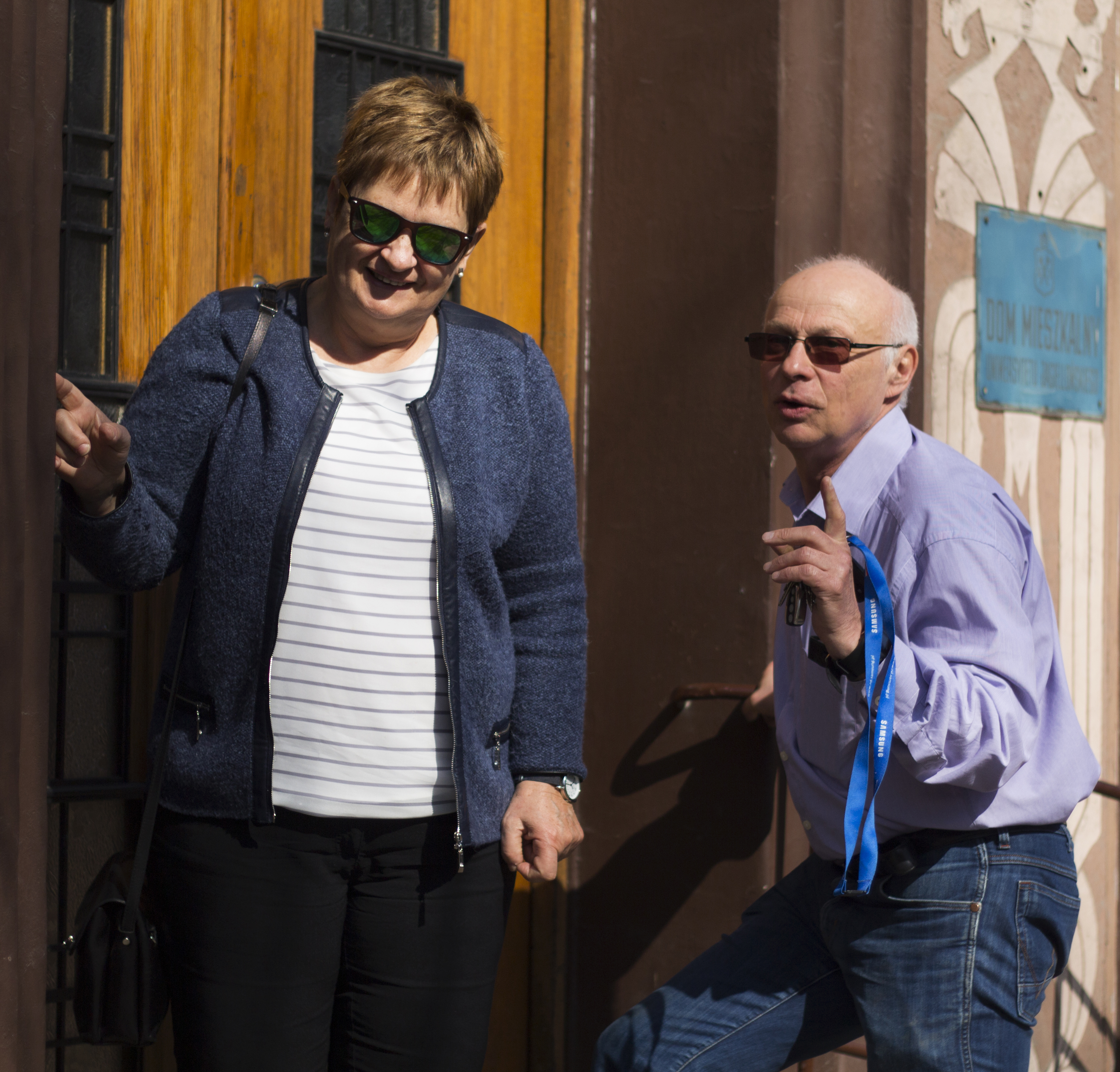 Grażyna Małgorzata Vetulani (bron 1956), philologist, romanist and linguist and her husband Zygmunt Vetulani (born 1950), mathematician, computer scientist and language engineer, at the gate of Professors House of the Jagiellonian University at Plac Inwalidów in Kraków, Poland.